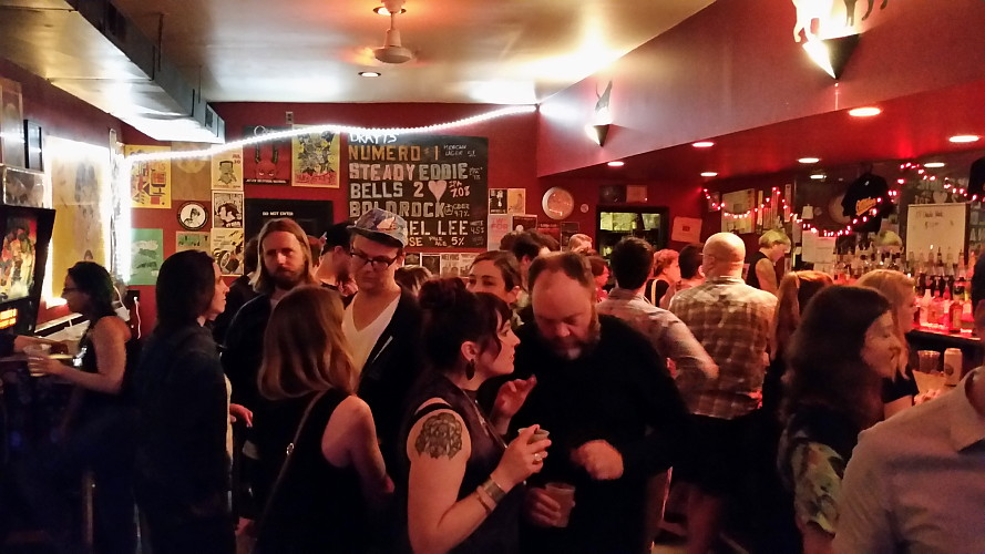 Crowd at the Ottobar, Charles Village, Baltimore, MD 06082017 LHCollins